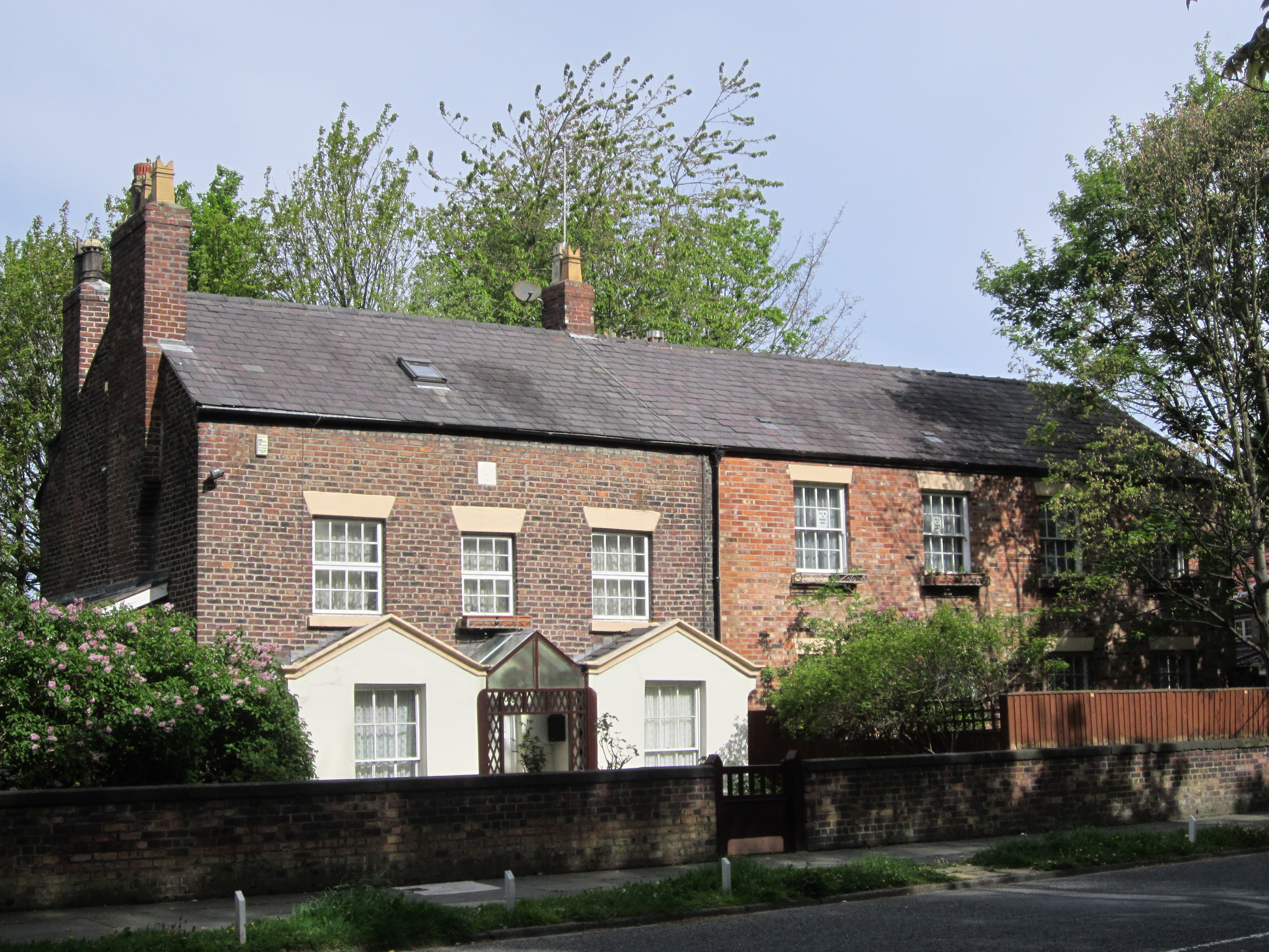 Ken Dodd's house in Knotty Ash, Liverpool, England.